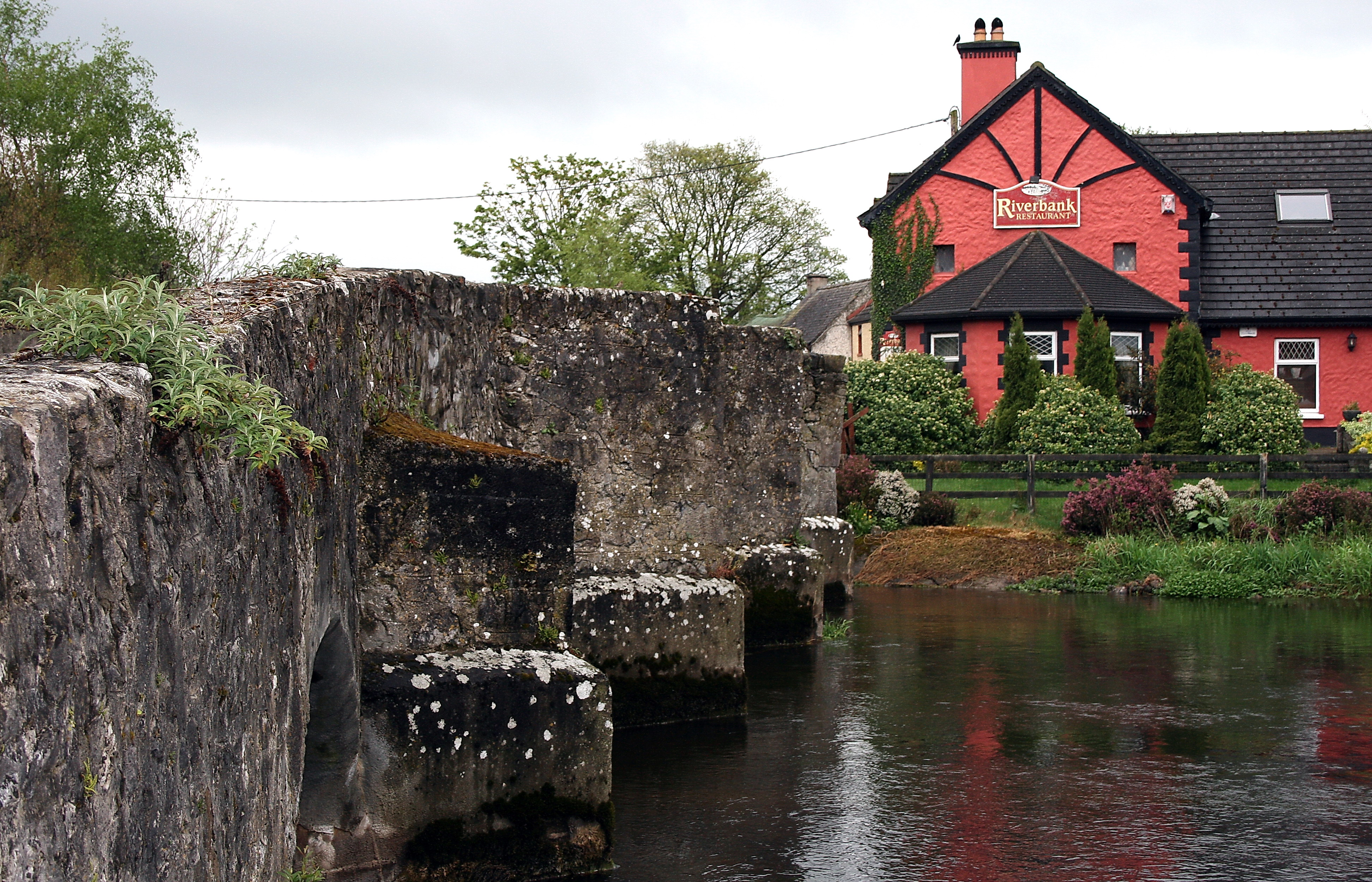 Riverstown, Birr, near to Riverstown, Parsonstown, Seerin, Crinkill and Whiteford, Tipperary, Ireland. The Little Brosna River is crossed by the N52 road at Riverstown Bridge. The Riverbank Restaurant is in County Offaly and the camera is in County Tipperary.